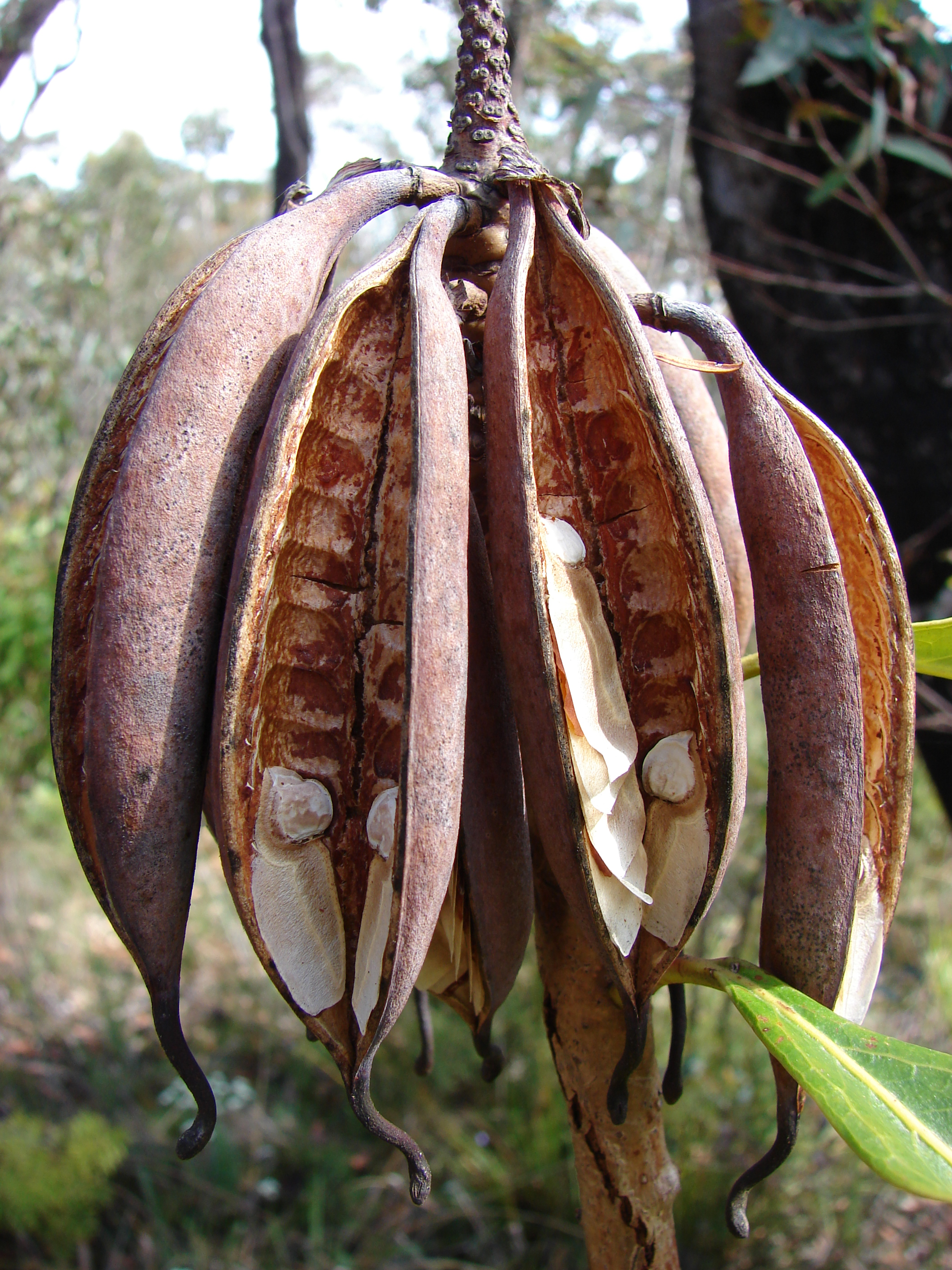 Seed pods and some seeds of Telopea speciosissima